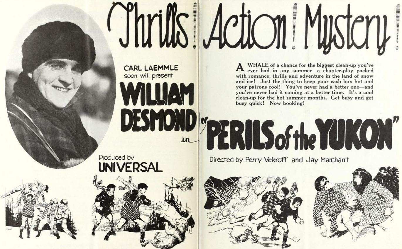 Ad for the American film serial Perils of the Yukon (1922) with William Desmond, on pages 20 and 21 of the June 3, 1922 Universal Weekly.